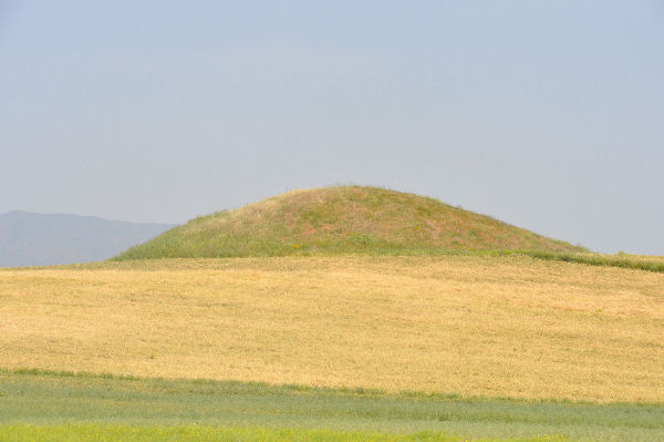 Bin Tepe, funeral mound